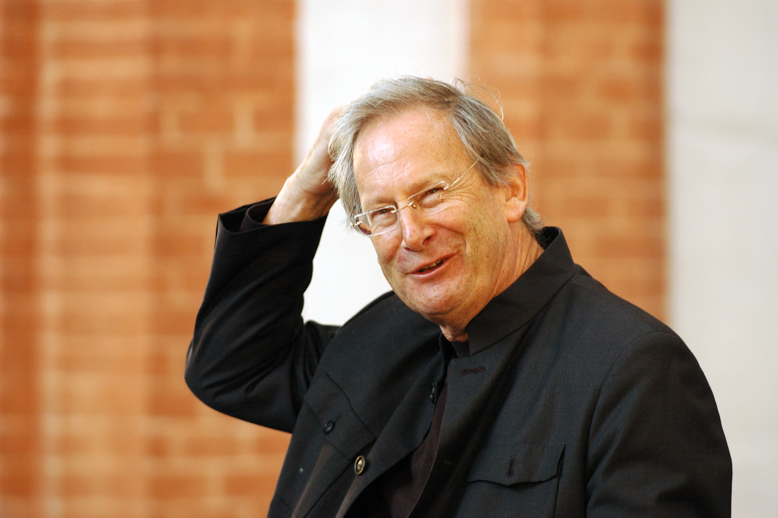 Conductor Sir John Eliot Gardiner at rehearsal in Wrocław (Poland) during the Wratislavia Cantans Festival (Photo taken by Maciej Goździelewski)